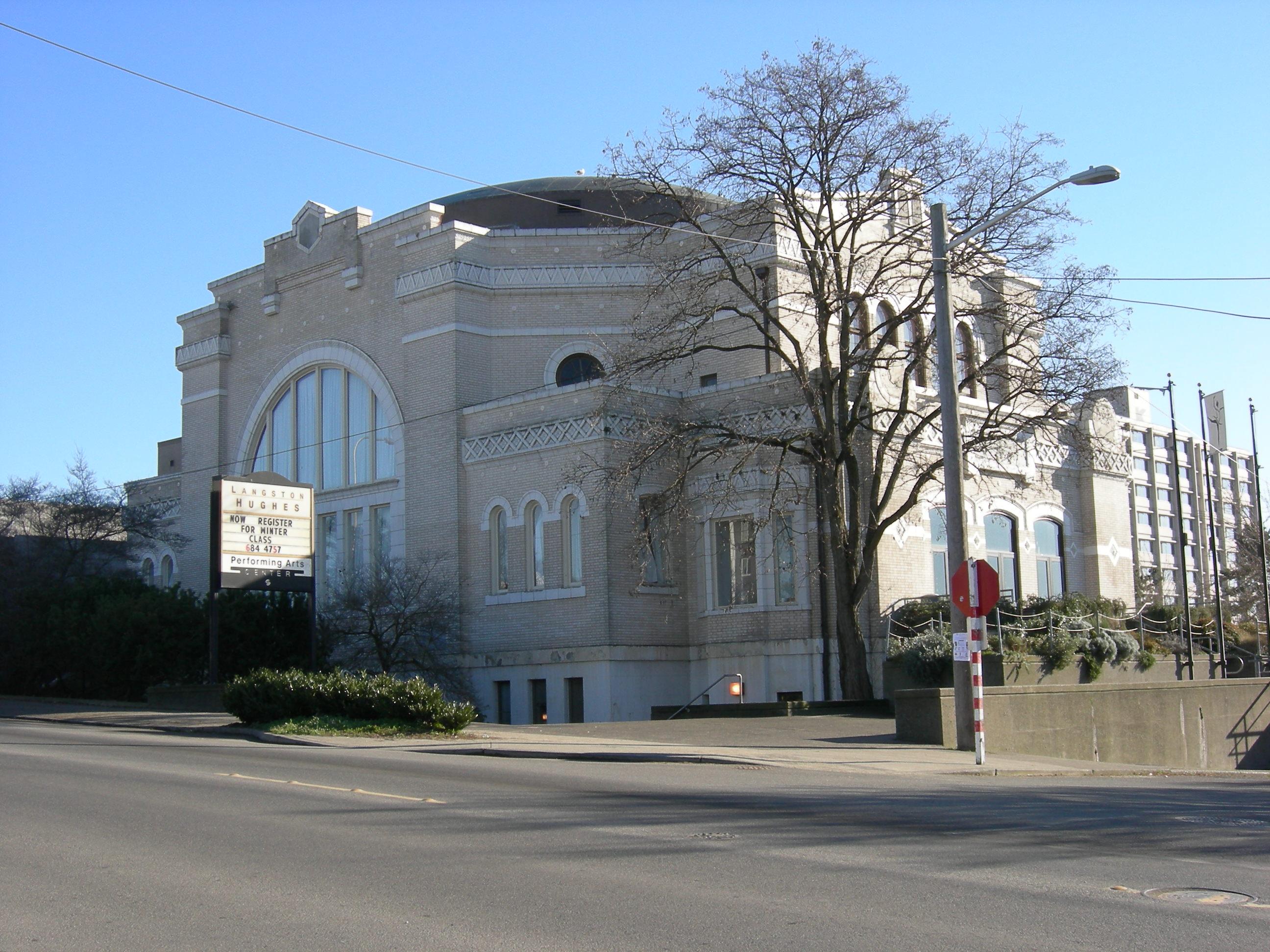 Langston Hughes Performing Arts Center, formerly the Jewish Synagogue of Chevra Bikur Cholim (1912), designed by B. Marcus Priteca